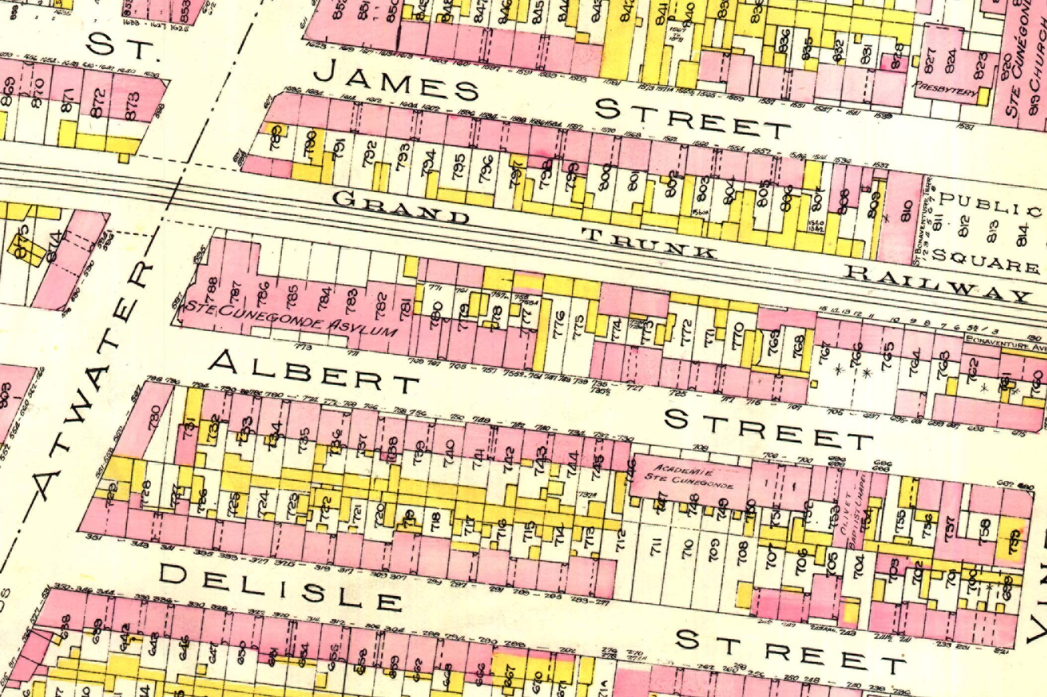 Atlas of the City of Montreal and vicinity : in four volumes, from official plans - special surveys showing cadastral numbers, buildings & lots